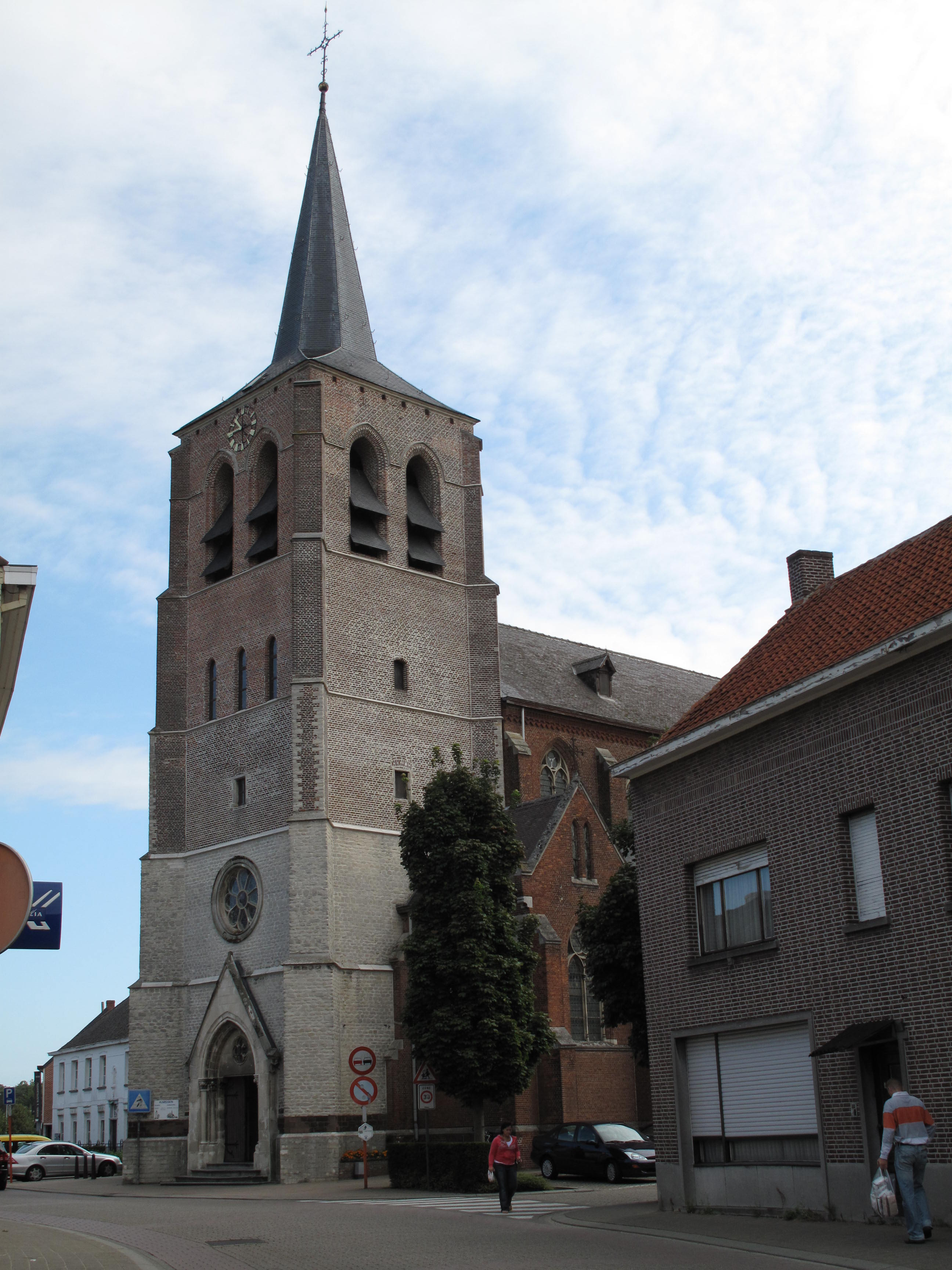 Noorderwijk, church